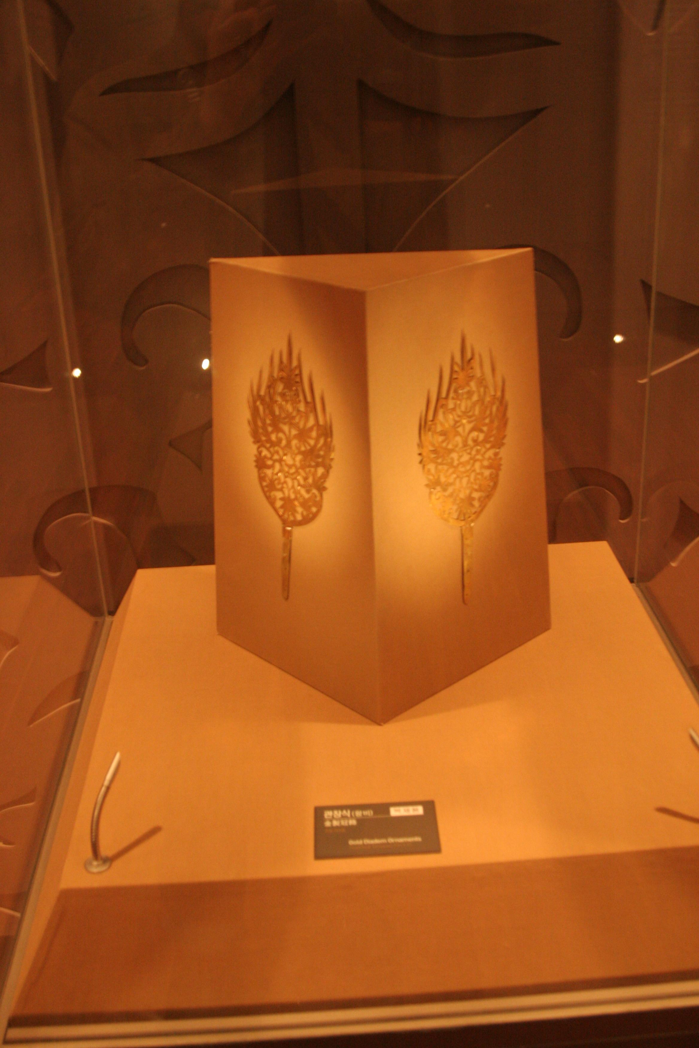 Two Gold diadem ornaments found in King Muryeong's tomb which were for the queen. They were worn on a silk cap afixed to the sides. The pair are also designated as a National Treasure of Korea.